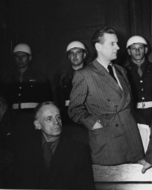 Joachim von Ribbentrop (sitting), former Foreign Minister, and Baldur von Schirach (standing), former leader of the Hitler Youth, during a recess at the International Military Tribunal trial of war criminals at Nuremberg. Date: Nov 20, 1945 - Oct 1, 1946 Locale: Nuremberg, [Bavaria] Germany